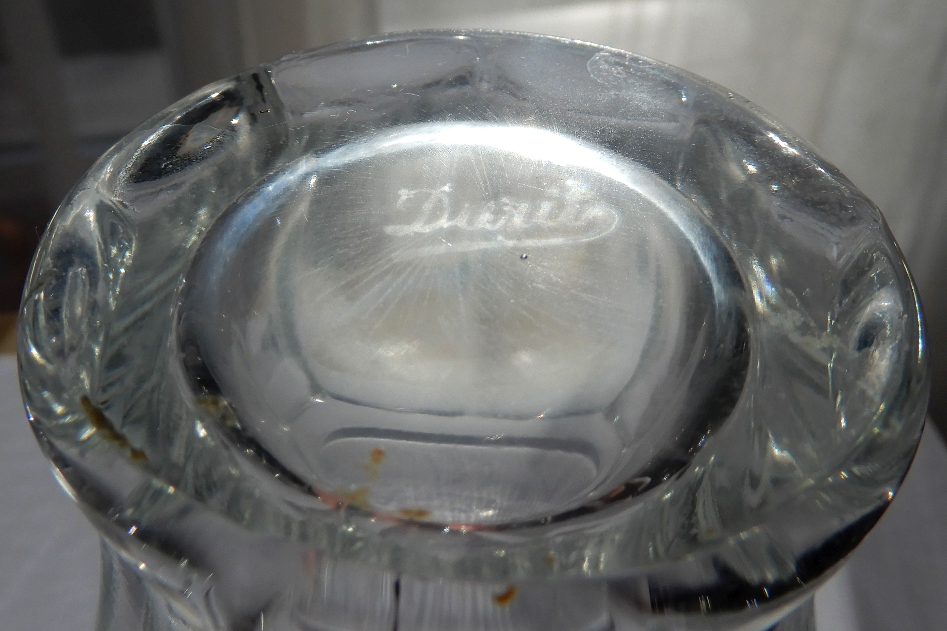 Drinking glass Durit, etched trade mark on the bottom, Josef Inwald, glassfactory Josef Inwald, Prague-Zlíchov, 1914-1940